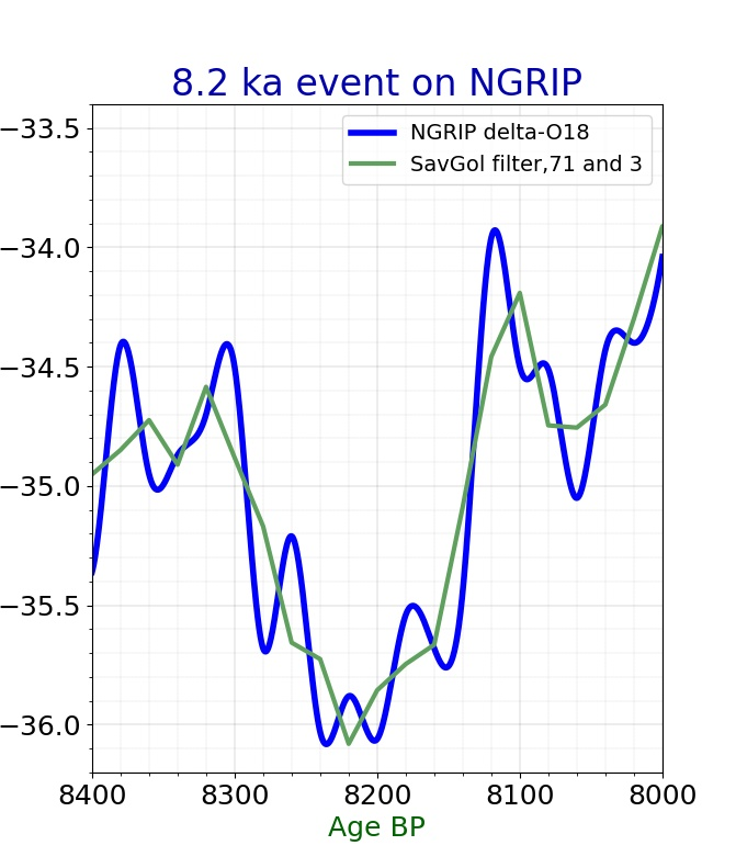 8200 kyr cold event seen in NGRIP corve, time goes from right to left, numbers thousand of uears ago down is colder, up is warmer.